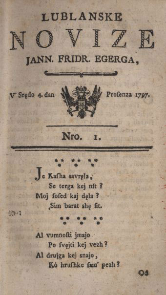 Cover of Lublanske novize ("Ljubljana news") newspaper from 1797